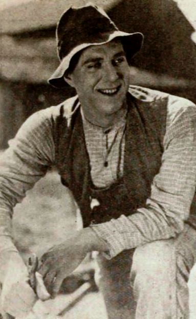 Still from the American drama film Fickle Women (1920) with David Butler, on page 59 of the August 21, 1920 Exhibitors Herald. This image of Butler was also used to advertise his later film Girls Don't Gamble (1920).